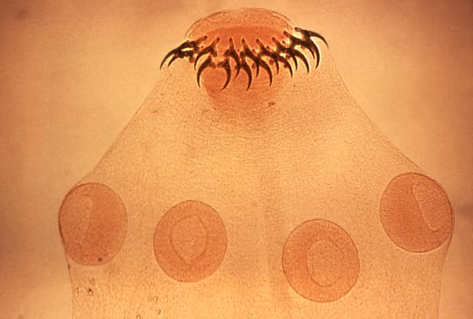 ID#: 5262 Description: This micrograph reveals the morphology of a Taenia solium tapeworm scolex with its four suckers, and two rows of hooks. In the human intestine, the cysticercus, i.e. larval stage, develops over 2 mo. into an adult tapeworm, which can survive for years, attaching to, and residing in the small intestine by using the suckers and hooks located in its head region, or scolex. Content Providers(s): CDC Creation Date: 1986 Copyright Restrictions: None - This image is in the public domain and thus free of any copyright restrictions. As a matter of courtesy we request that the content provider be credited and notified in any public or private usage of this image.